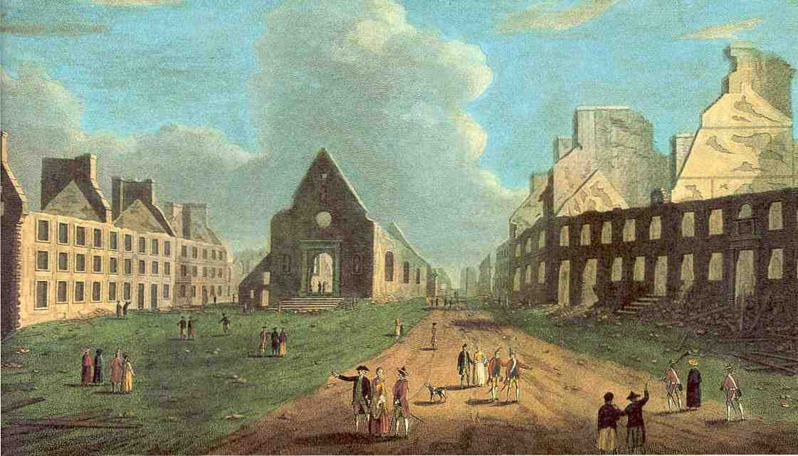 Notre-Dame-des-Victoires, Quebec City The church was largely destroyed by the British bombardment that preceded the Battle of the Plains of Abraham in September 1759.